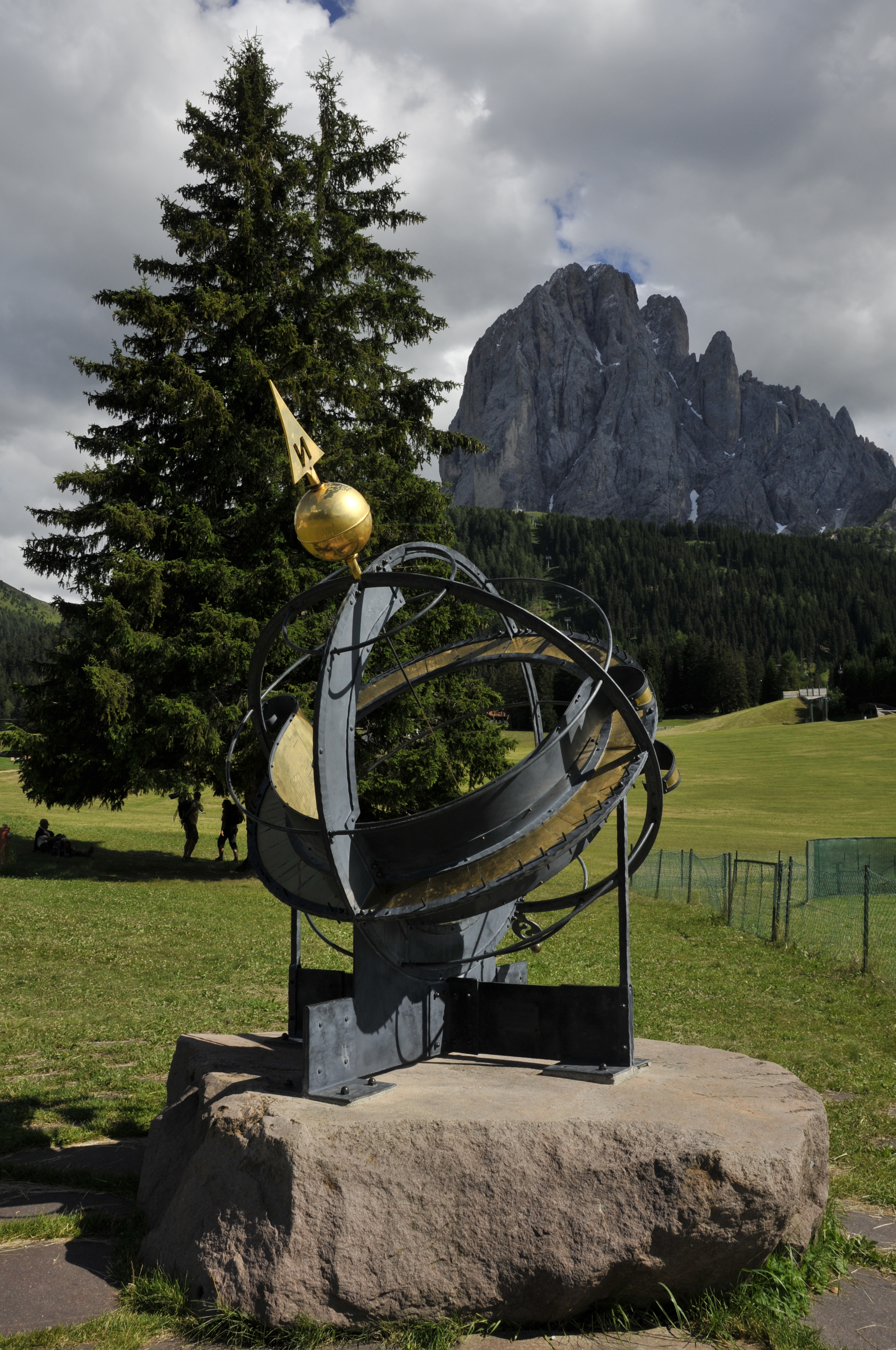 Sundial by Simon Moroder on Monte Pana in Val Gardena - South Tyrol.